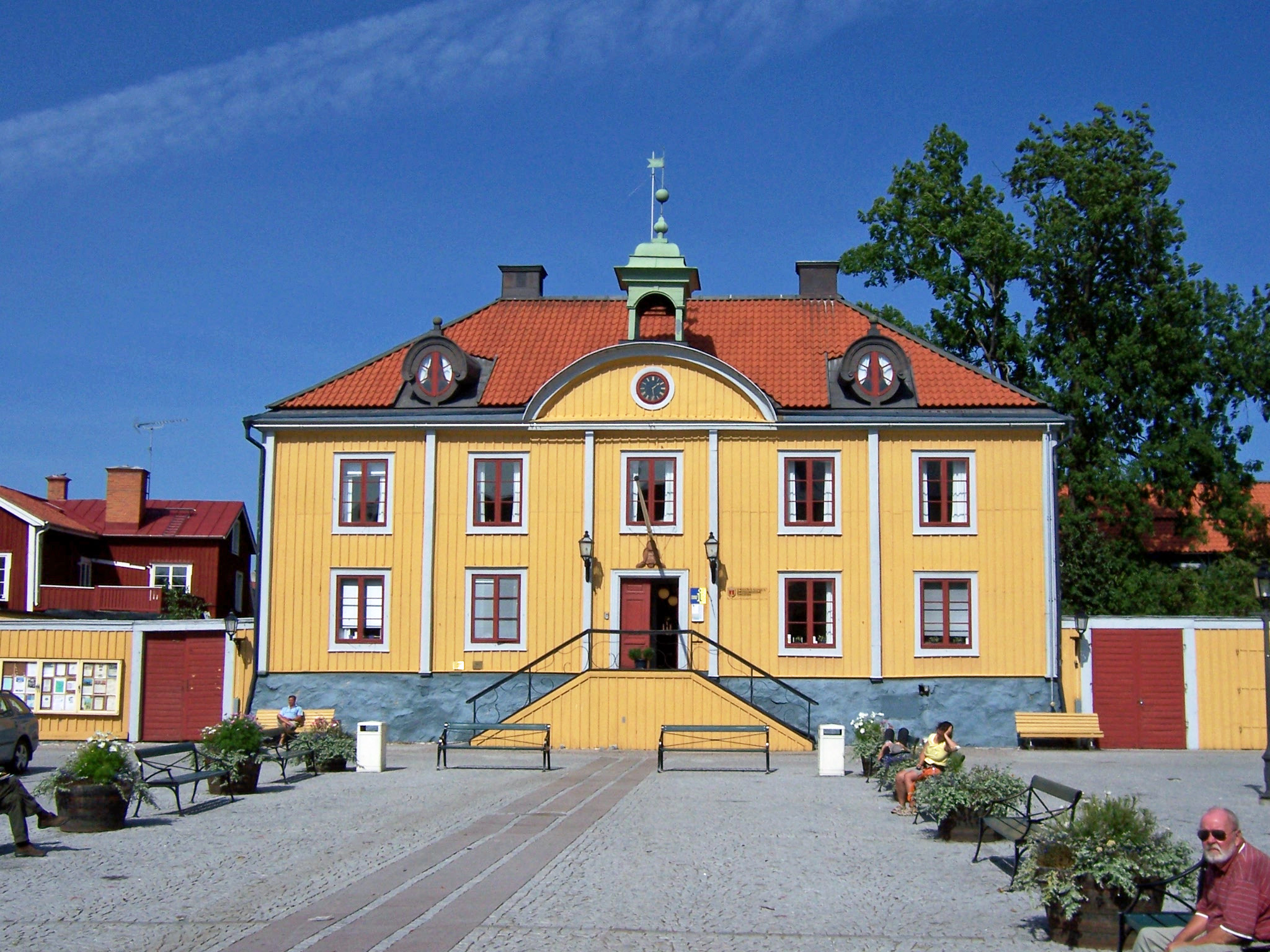 Town hall of Mariefred (Sweden) own work, all rights released